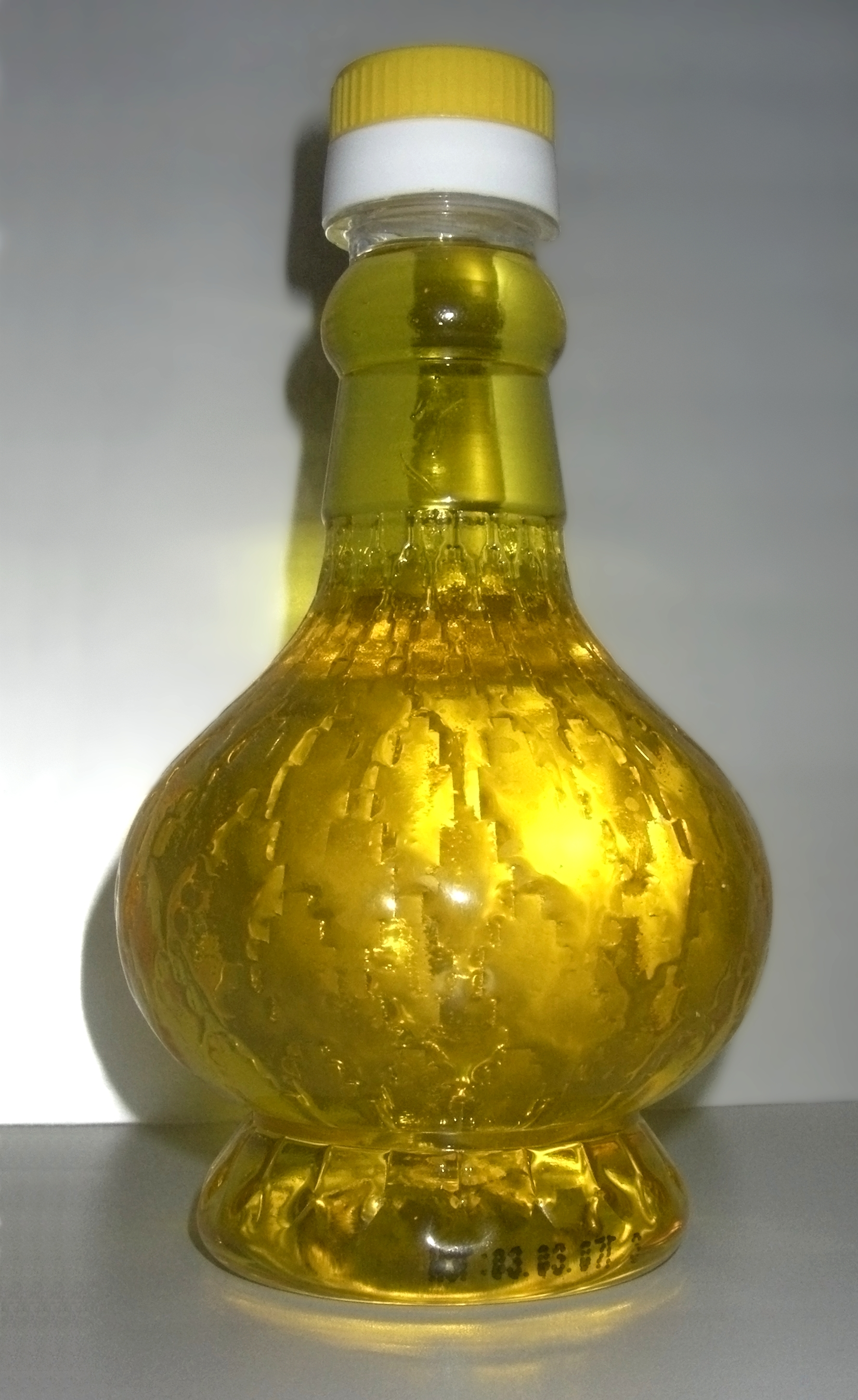 Sunflowerseed oil